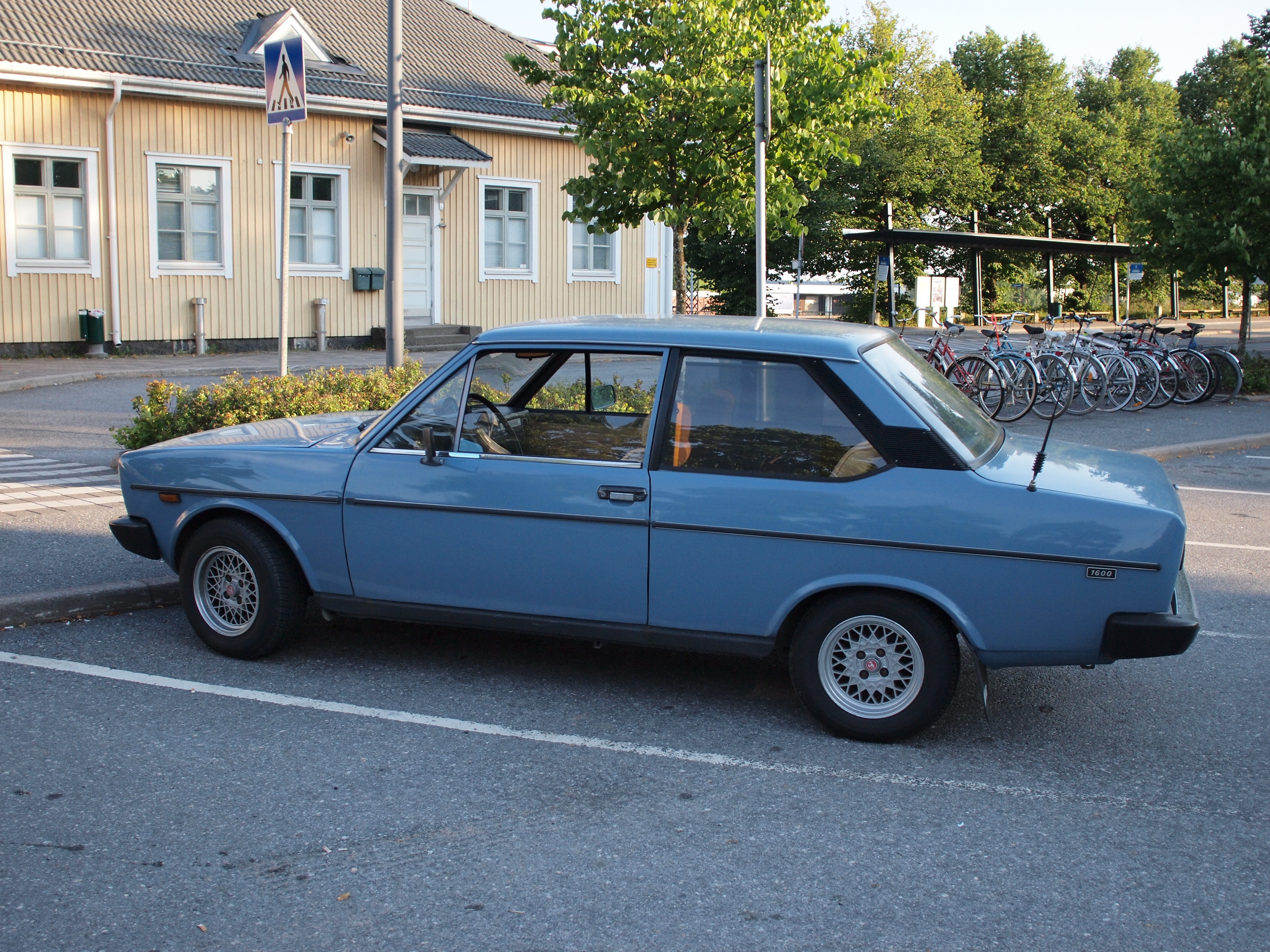 FIAT 131 Mirafiori L 1600 of 1979.